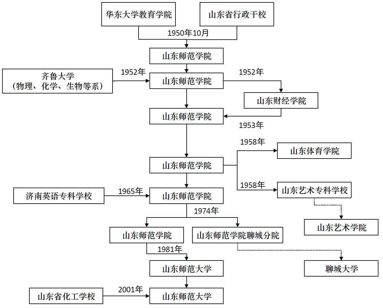 History of Shandong Normal University